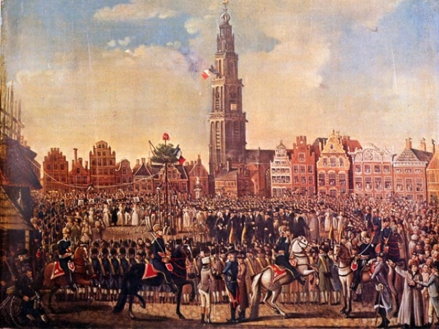 The liberty tree on the Grote Markt in Groningen in 1795 after the liberation by French troops.